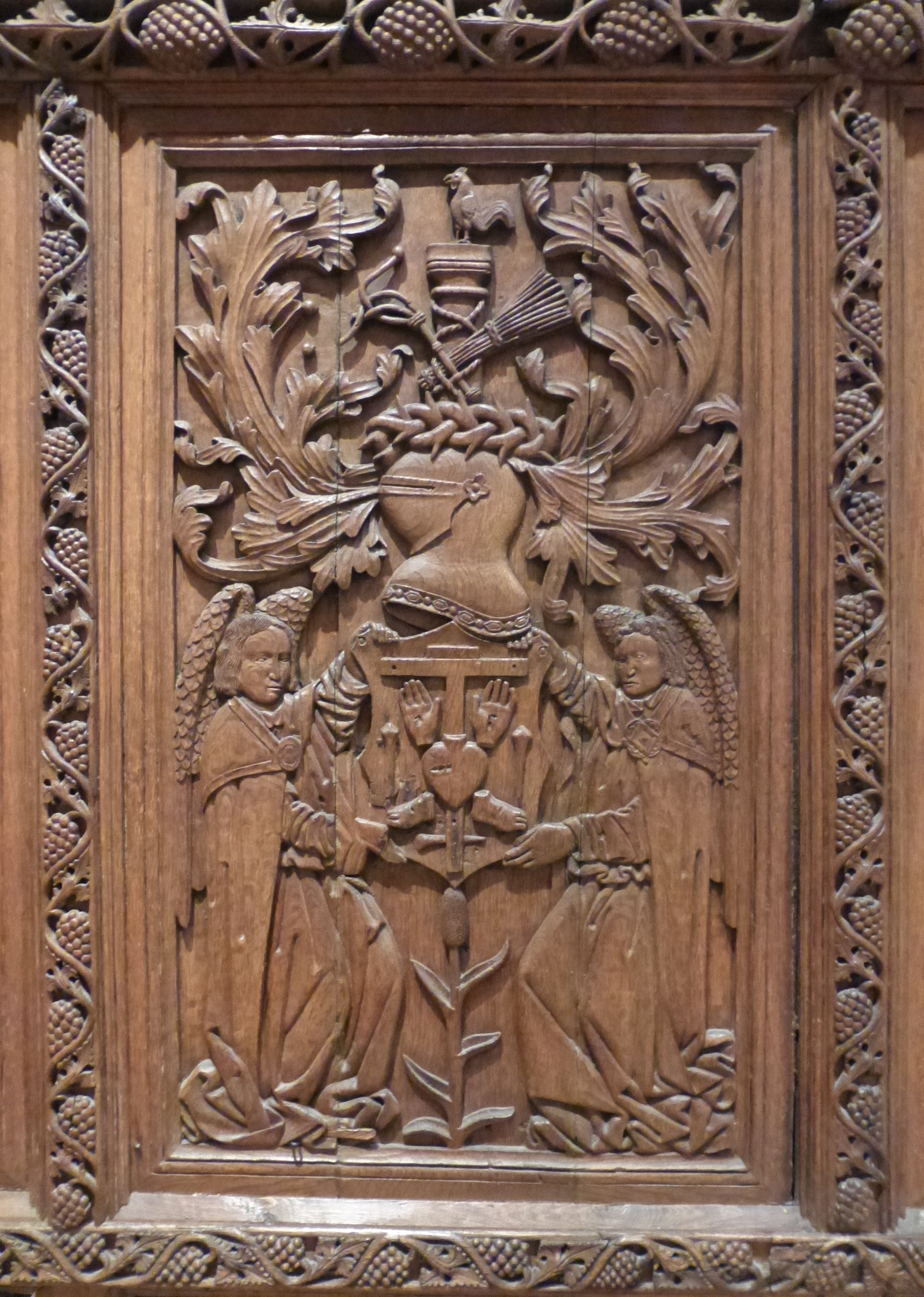 One of the Beaton Panels displayed in the National Museum of Scotland. The carvings, commissioned around the 1530s, are believed to have adorned the Cardinal's private apartments in St. Andrews Castle and been removed by his nephew and captain of the castle, John Beaton of Balfour. They were installed in the dining room of Balfour House near Markinch in Fife. The Museum describes them as "an outstanding example of late Gothic woodwork".